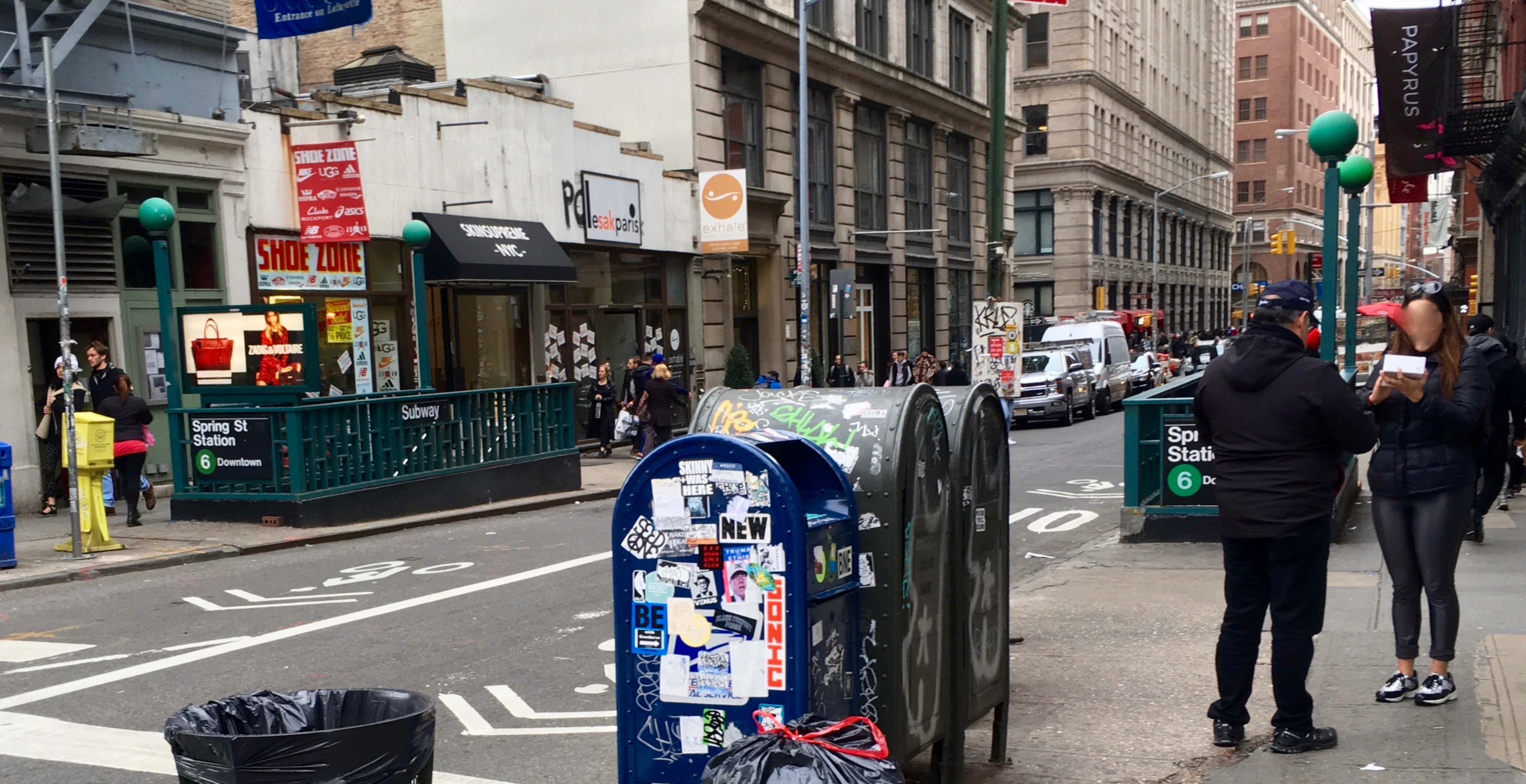 Stairs to downtown platform at Spring Street on the Lexington Avenue line.